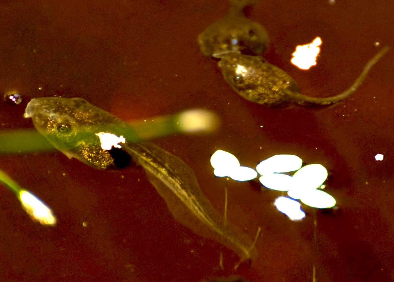 Motorbike Frog (Litoria moorei) tadpoles, in a pond in Bayswater, Perth, Western Australia. Approximately three weeks old.